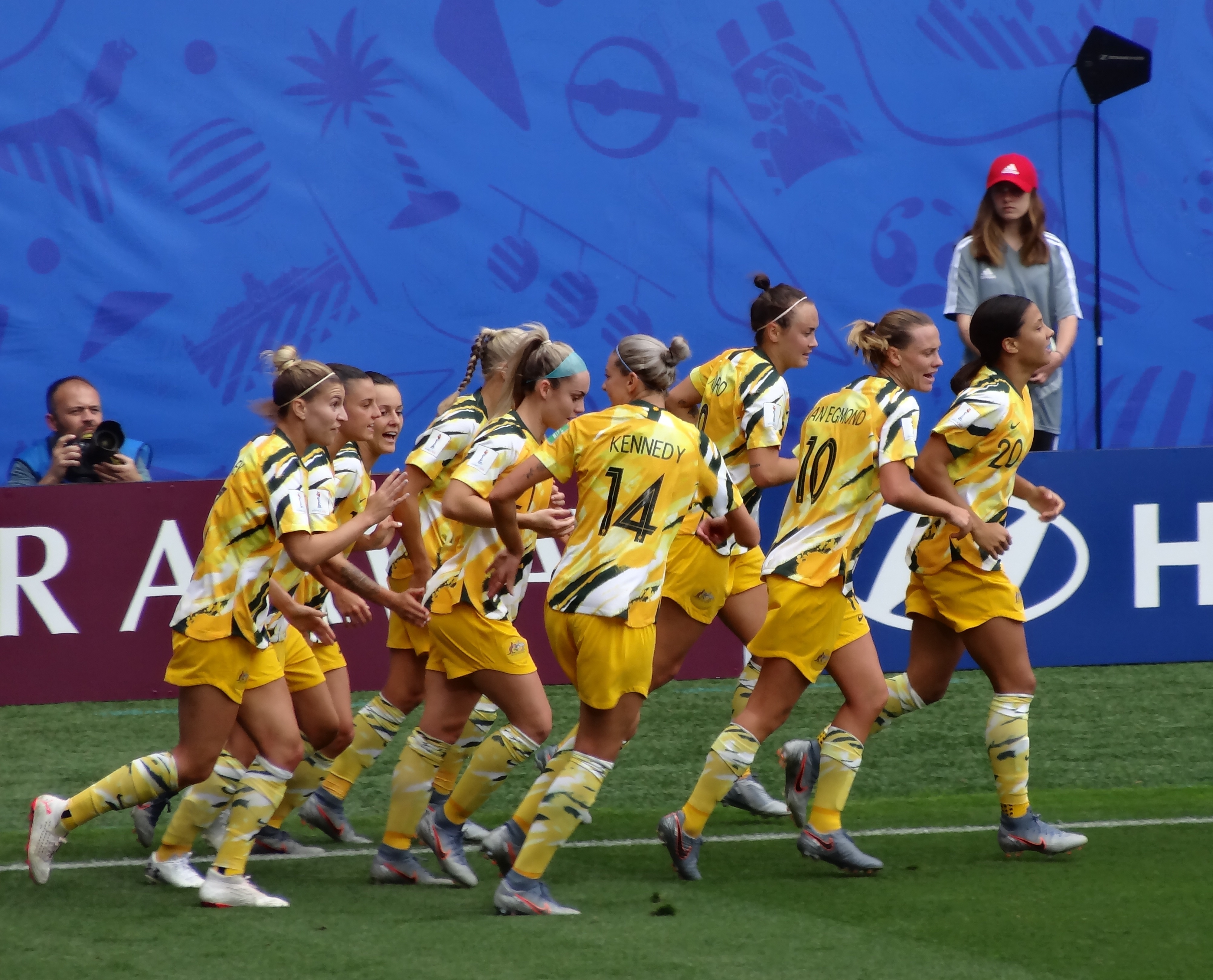 Australie Team (Women World Cup France 2019)